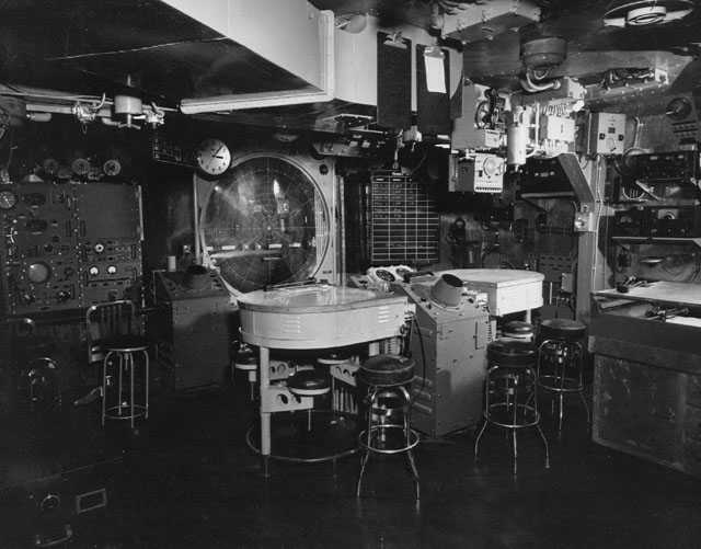 View of the combat information center (CIC) of the U.S. light aircraft carrier USS Independence (CVL-22) during the Second World War.